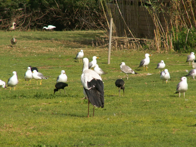 Birds in Tel Aviv University Zoo